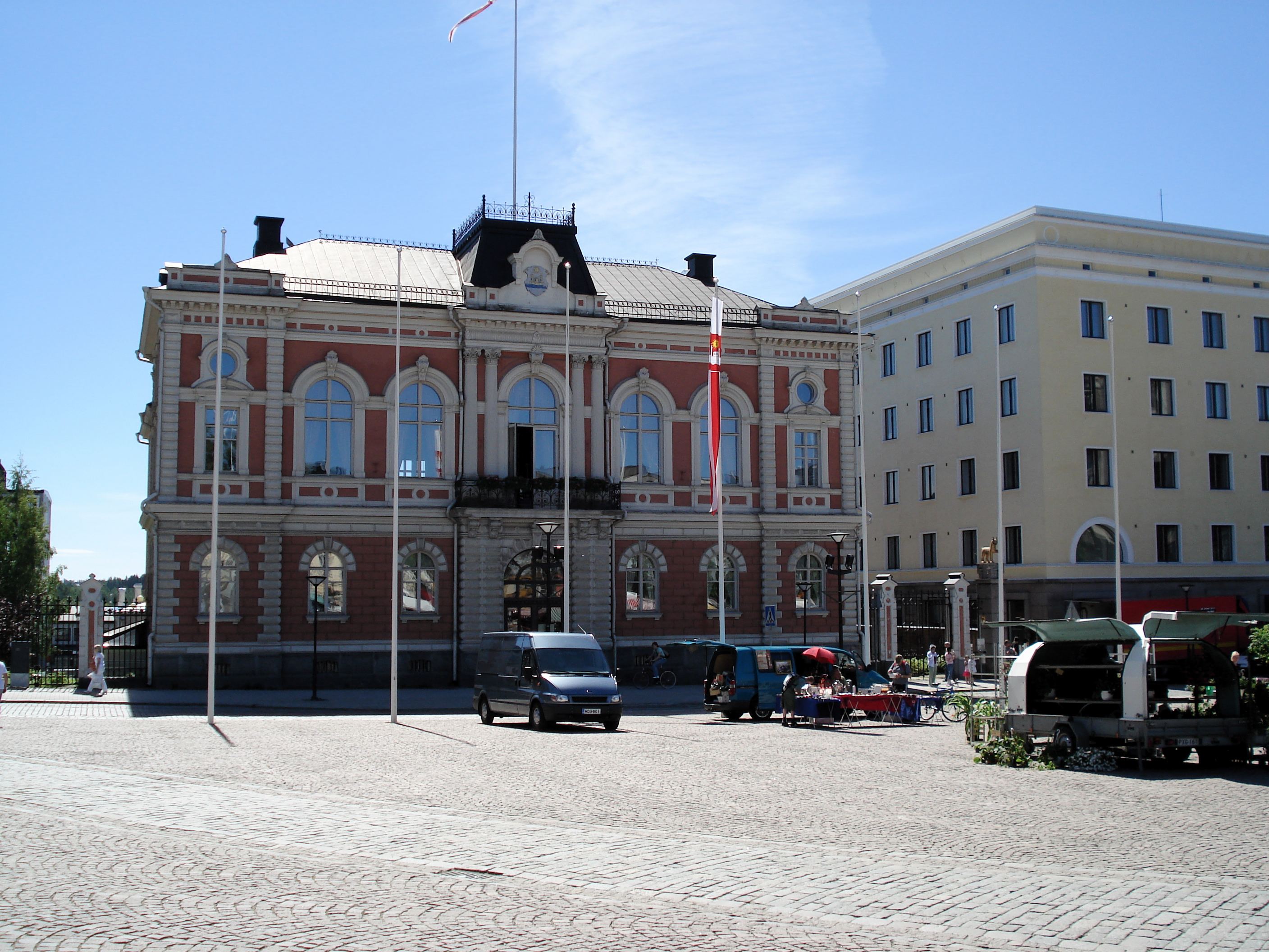 Hämeenlinna Old Town Hall in Hämeenlinna, Finland. Completed in 1888. Architect: Alfred Cawén.